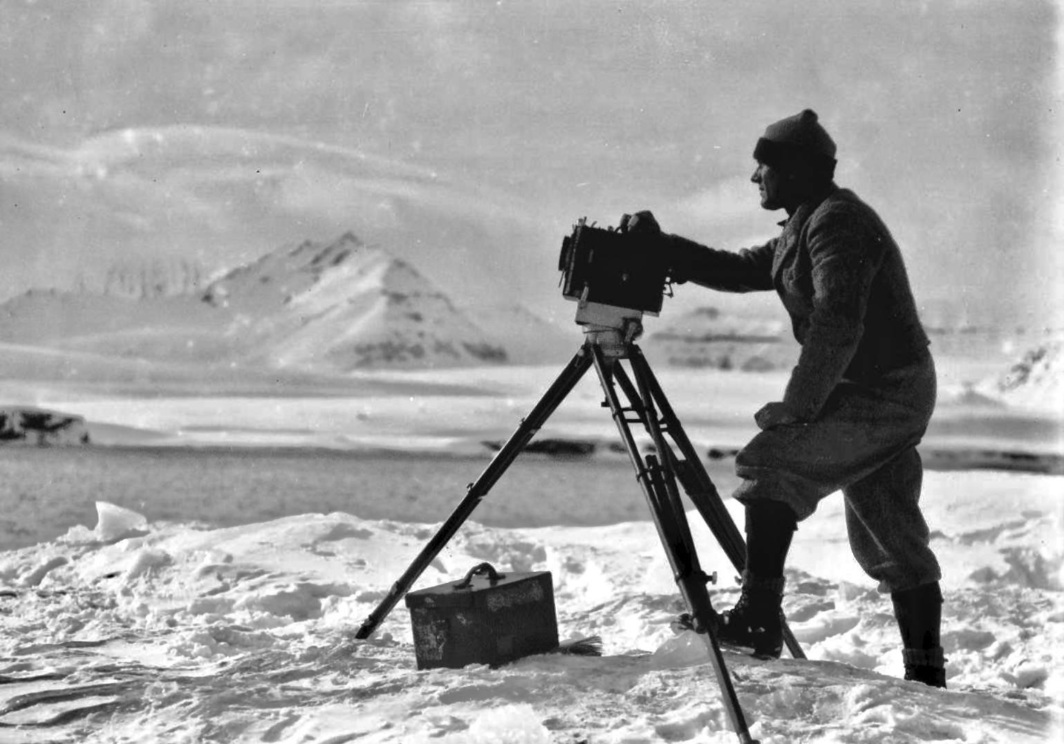 German cinematographer Sepp Allgeier (1895–1968) during an UFA expedition to Spitzbergen and Greenland. The shooting resulted in the silent movie Milak, der Grönlandjäger which premiered 6 June 1928 at Mozartsaal in Berlin.